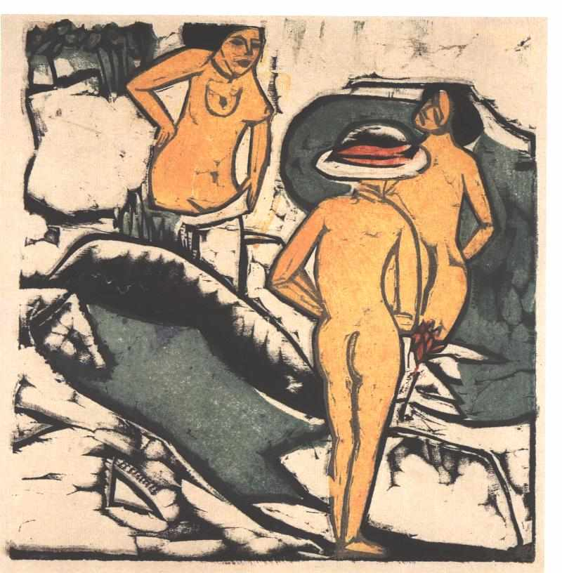 Bathing women between white rocks